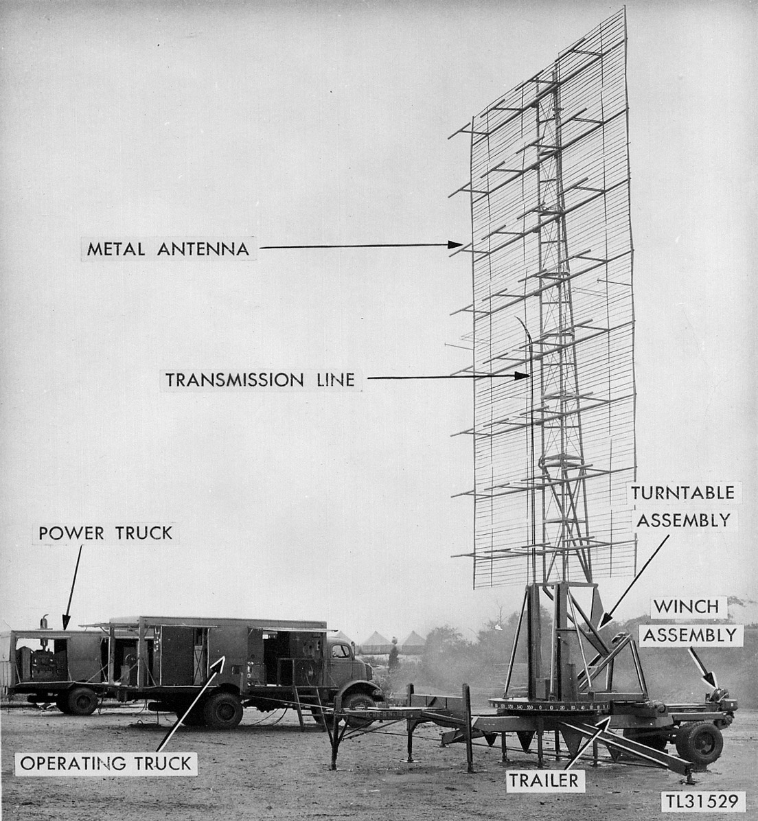 Original Caption: Radio Set SCR-270 set up for operation. Note: this is the model of portable unit located at Opana point that detected the Pearl Harbor attacking planes 55 minutes prior to the attack. alteration- this version has a border cropped which credits the photo to Lieutenant Zahl. Original at the above location. This photo is credited to First Lieutenant Harold Zahl, who pioneered Radar use by the Army air corps. The photo appears in a paper by him from the period. these photos would not have been saved were it not for Dr. Howard W. Andrews, who had the foresight to preserve them along with Lieutenant (Dr.) Zahl's papers for posterity. Credit and thanks to H.W. Andrews for preseving these photos.